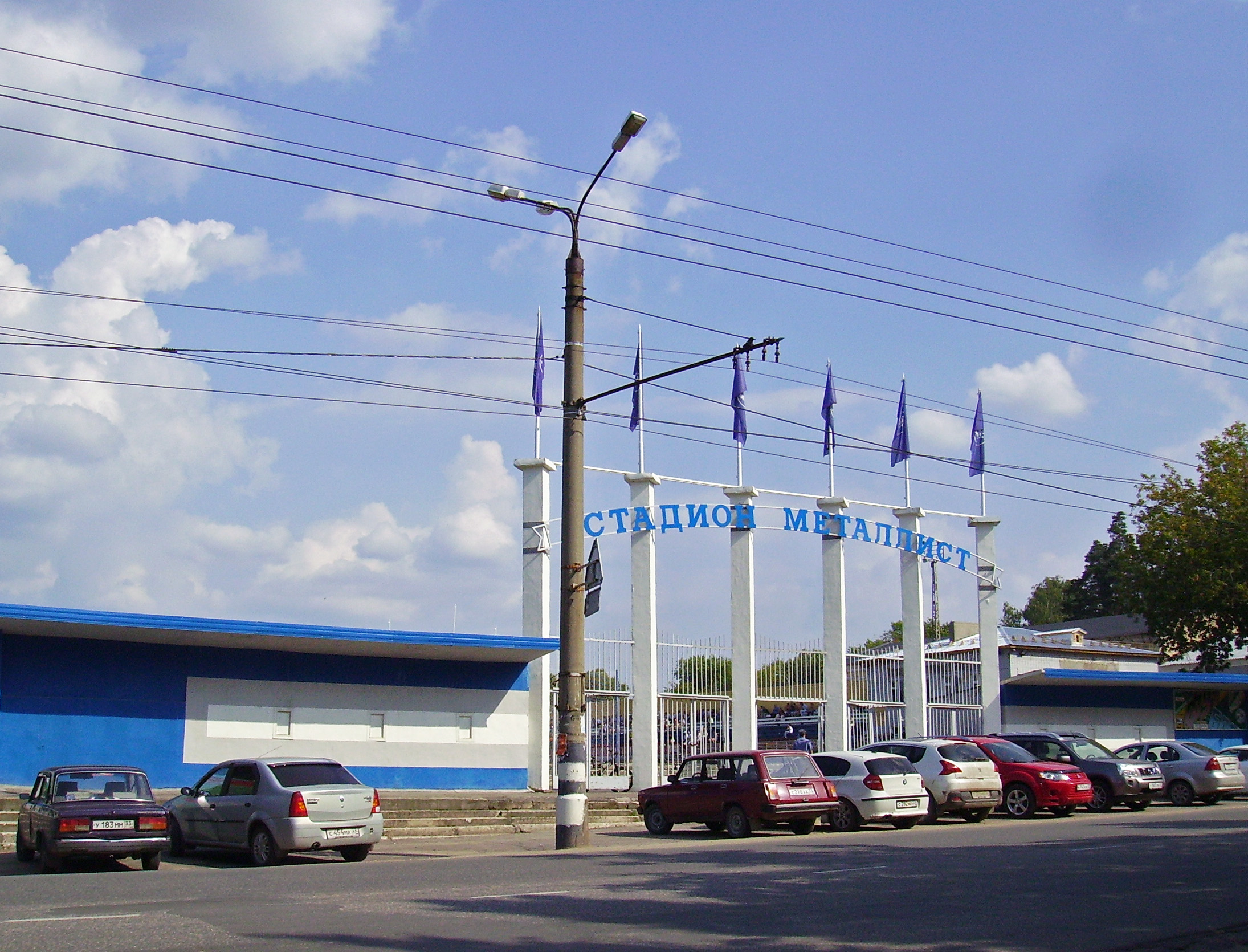 Kovrov. Metallist Stadium